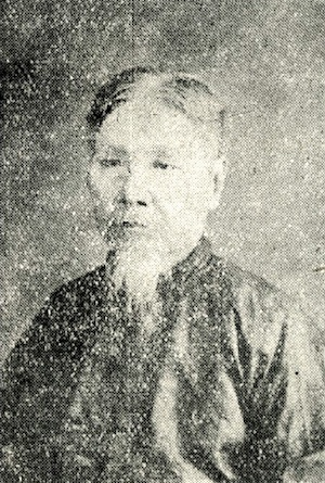 吳德功 Ngô͘ Tek-kong